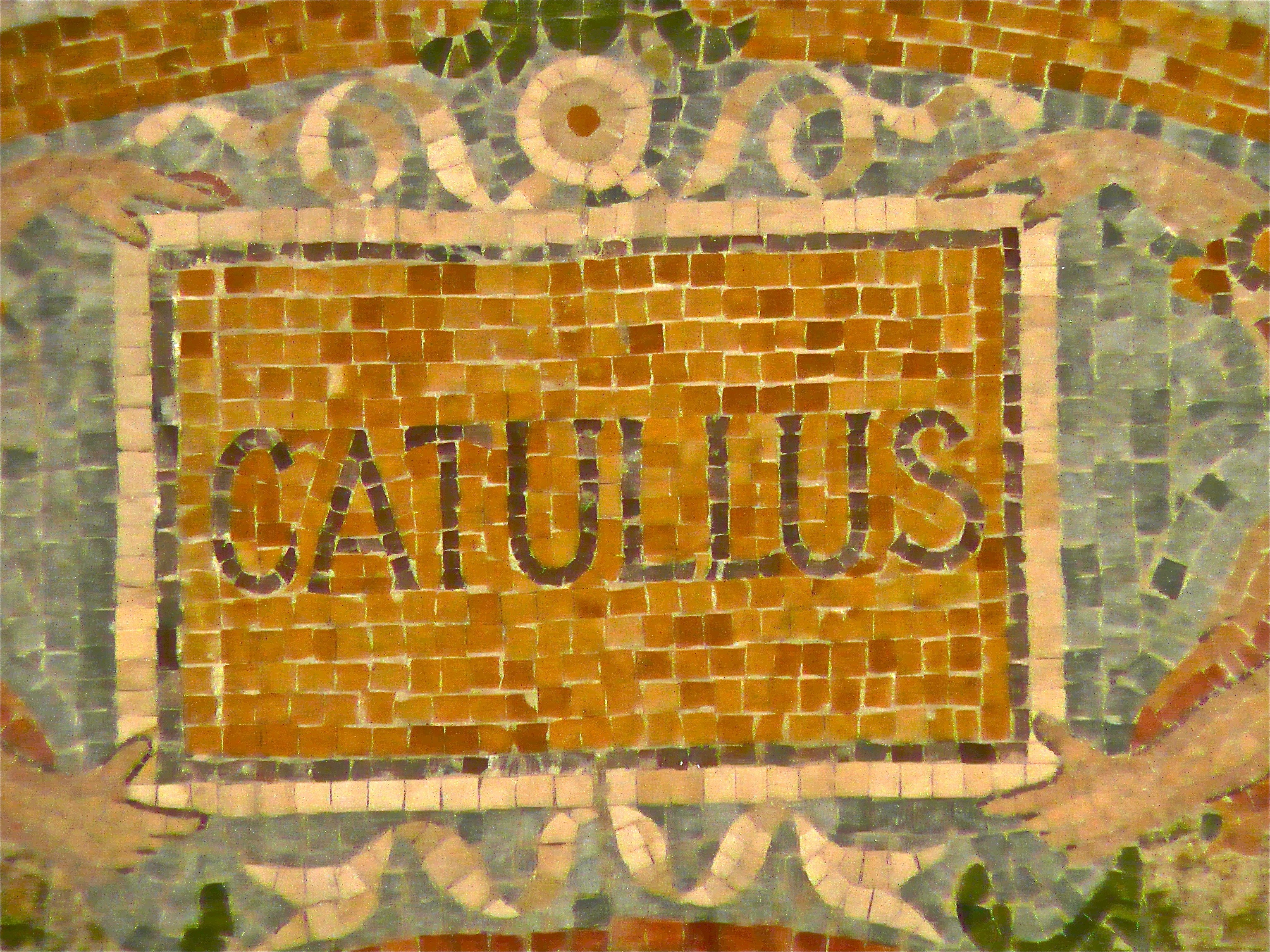 Ceiling mosaic honoring the poet Catullus, Thomas Jefferson Building, Library of Congress, Washington, D.C. Taken at 2012 Flicker photography meetup.